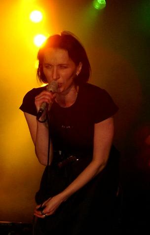 Renata Przemyk, Polsih singer.